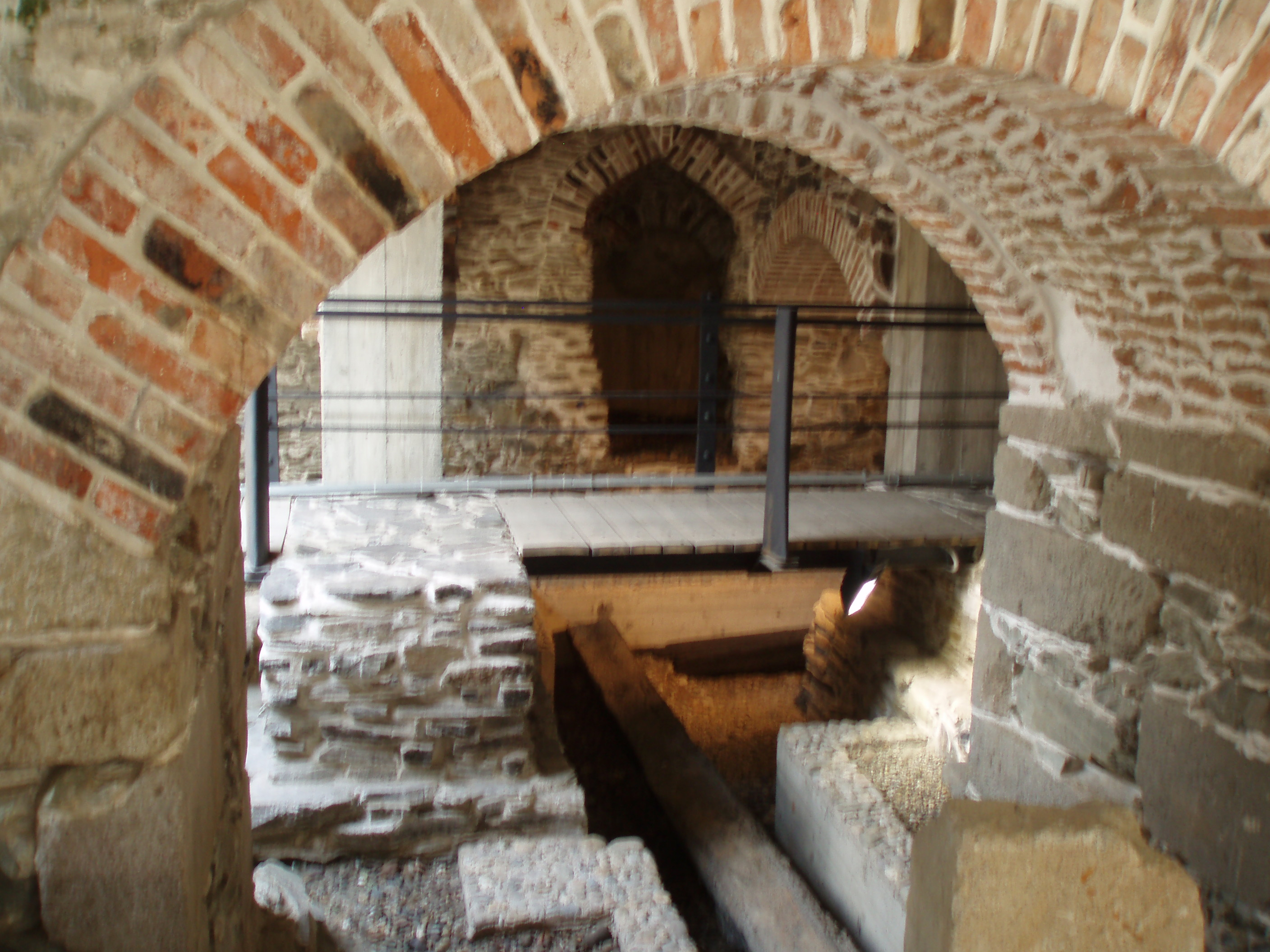 Archeological Muzeum Košice